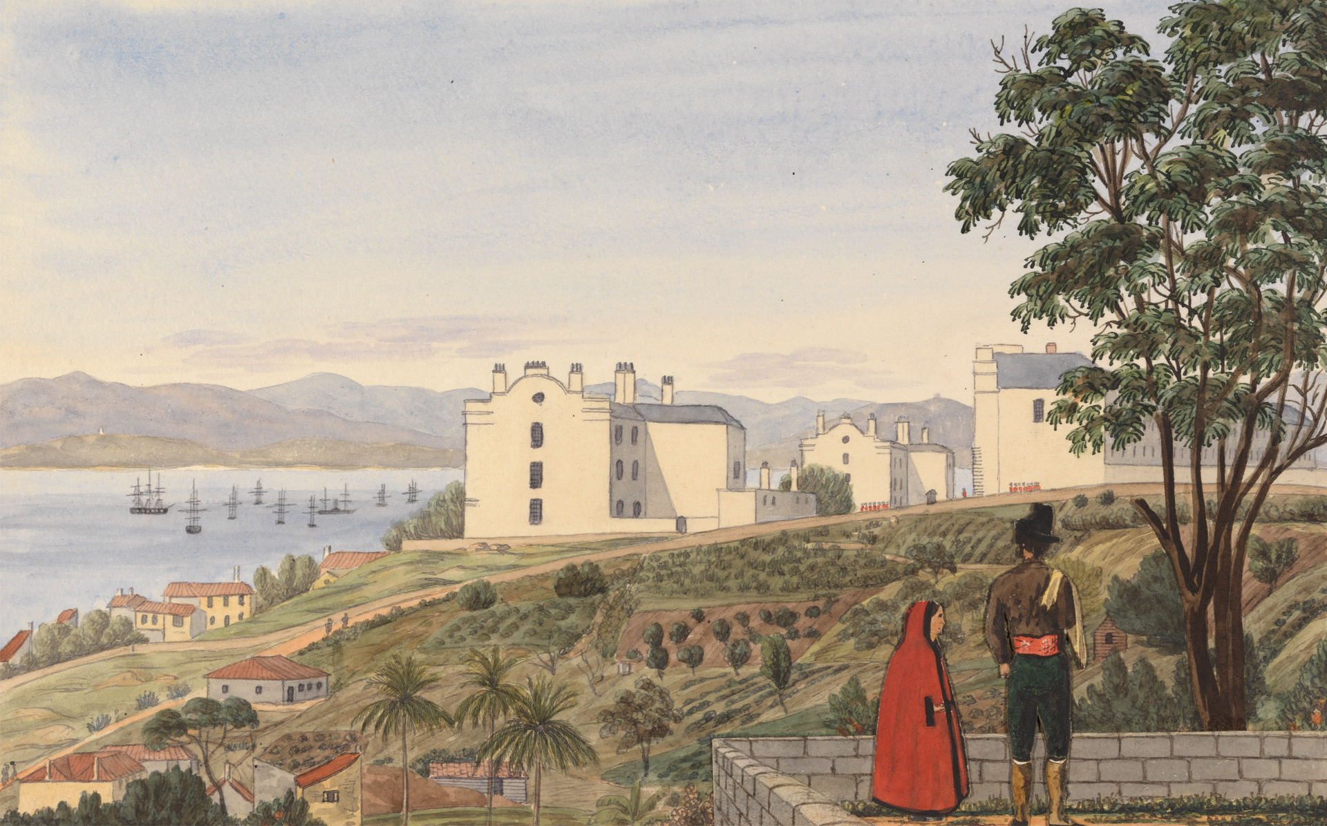 South Barracks, Gibraltar (1844) by George Lothian Hall, 1825-1888 from Yale Center for British Art, Paul Mellon Collection